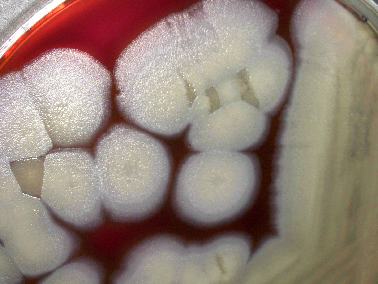 Under the low-power magnification of 10X of a digital Keyence scope, this photograph depicts the colonial growth displayed by Gram-positive Bacillus thuringiensis bacteria, which were cultured on sheep blood agar (SBA) medium, for a 48 hour time period, at a temperature of 37°C.